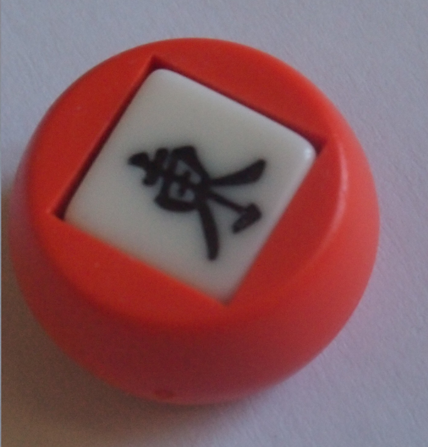 Mahjong Tion. Wind indicator